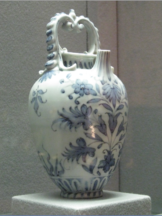 Baby's bottle in Medici porcelain. Soft Paste Porcelain, ca. 1575–87.